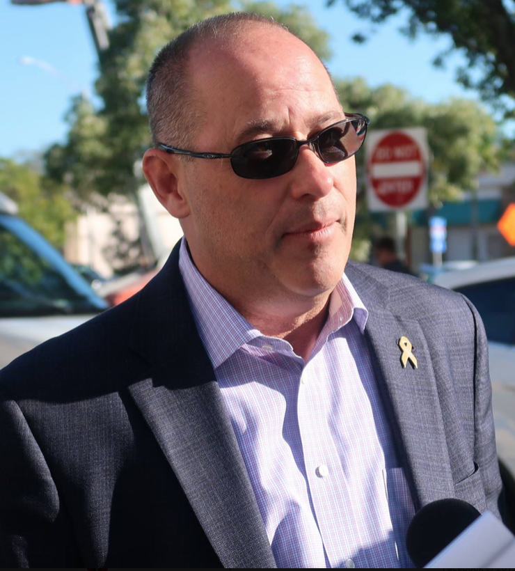 Fred Guttenberg, father of Parkland shooting victim, Jaime Guttenberg, speaks to the press on Sheriff Scott Israel's suspension.